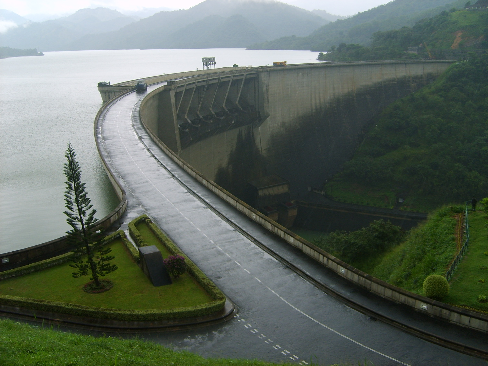 The Victoria Dam and Reservoir in Sri Lanka. With a height of 122 m Victoria Dam is the largest dam in the country.